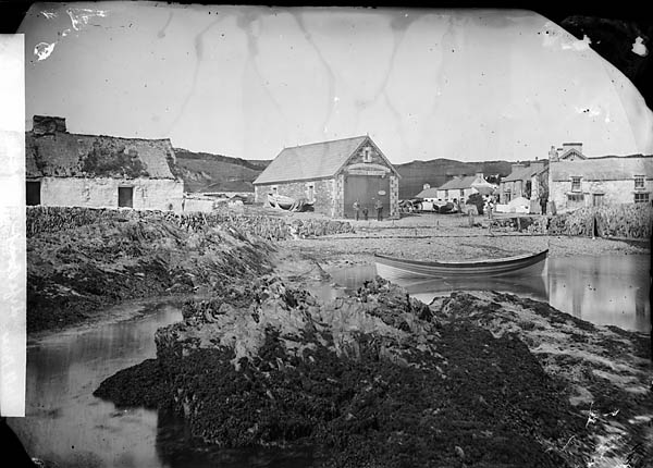 1 negative : glass, wet collodion, b&w ; 12 x 16.5 cm.